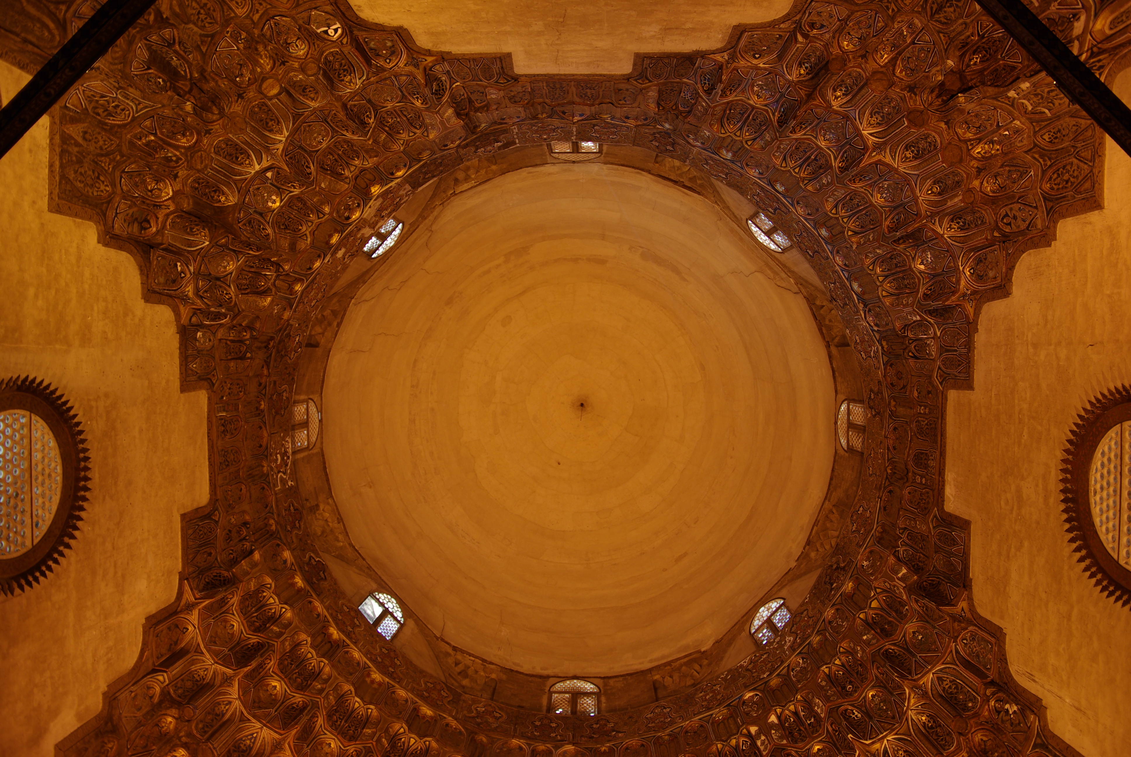 Cairo, Mosque-Madrassa of Sultan Hassan